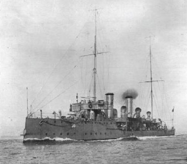 HMS Niger 1892-1914 - Project Gutenberg eText 18333 w/o artifacts